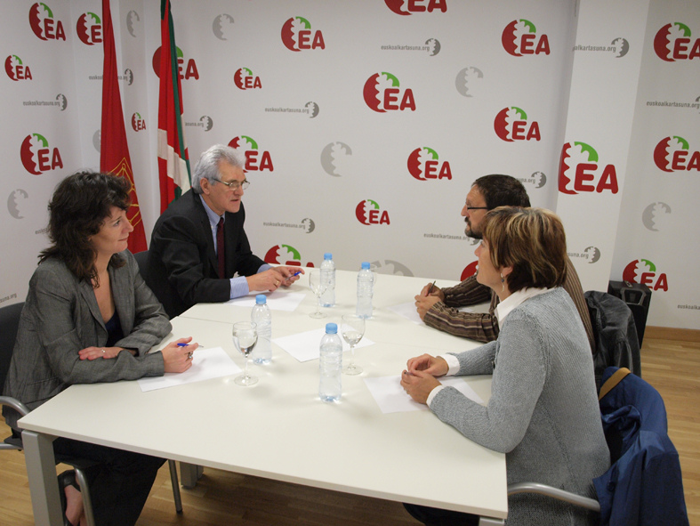 Public meeting between Eusko Alkartasuna and Basque pro-independence left in Pamplona, Navarre, Basque Country.